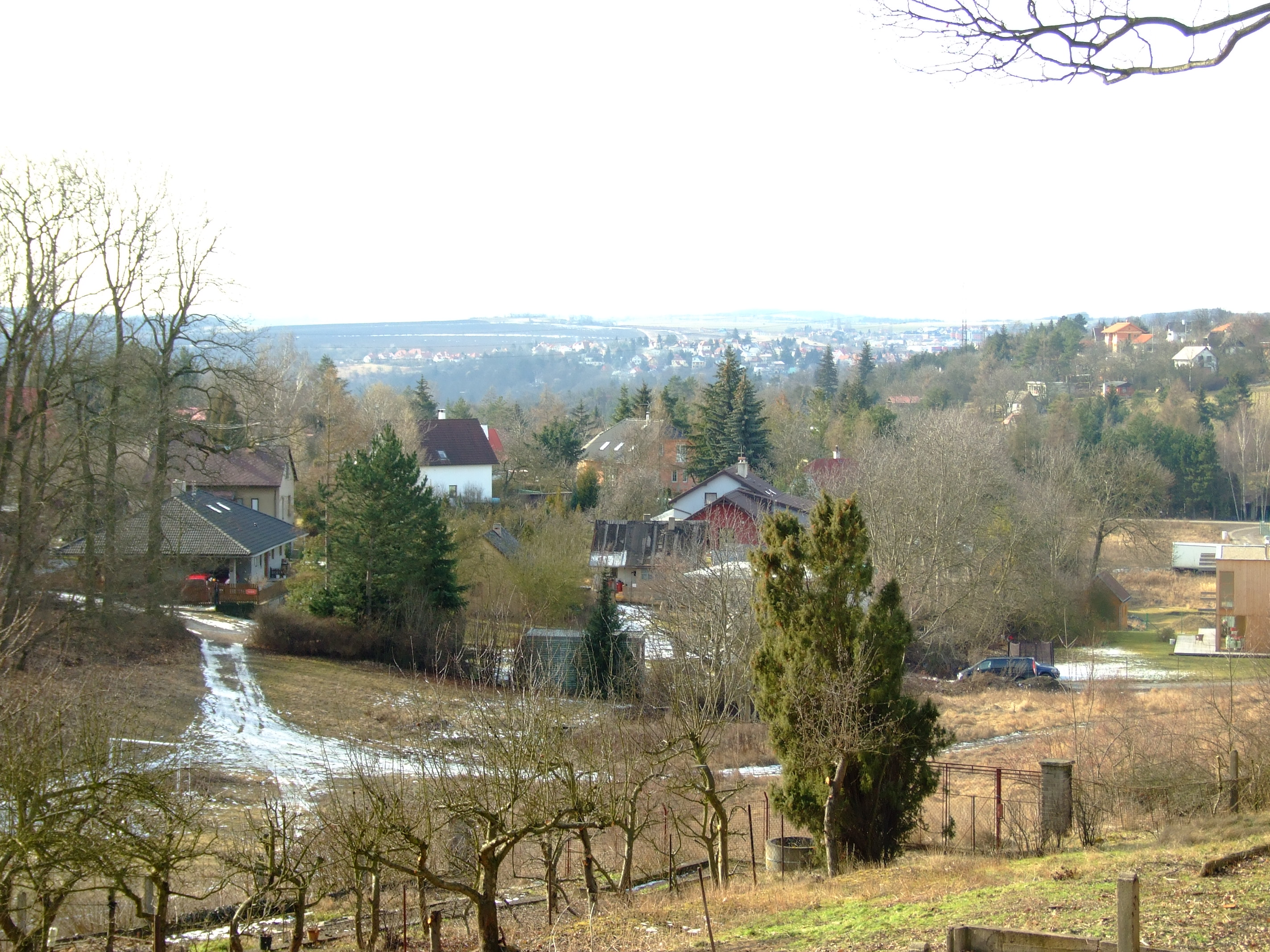 Brnky in Zdiby, near Prague, CZhelp